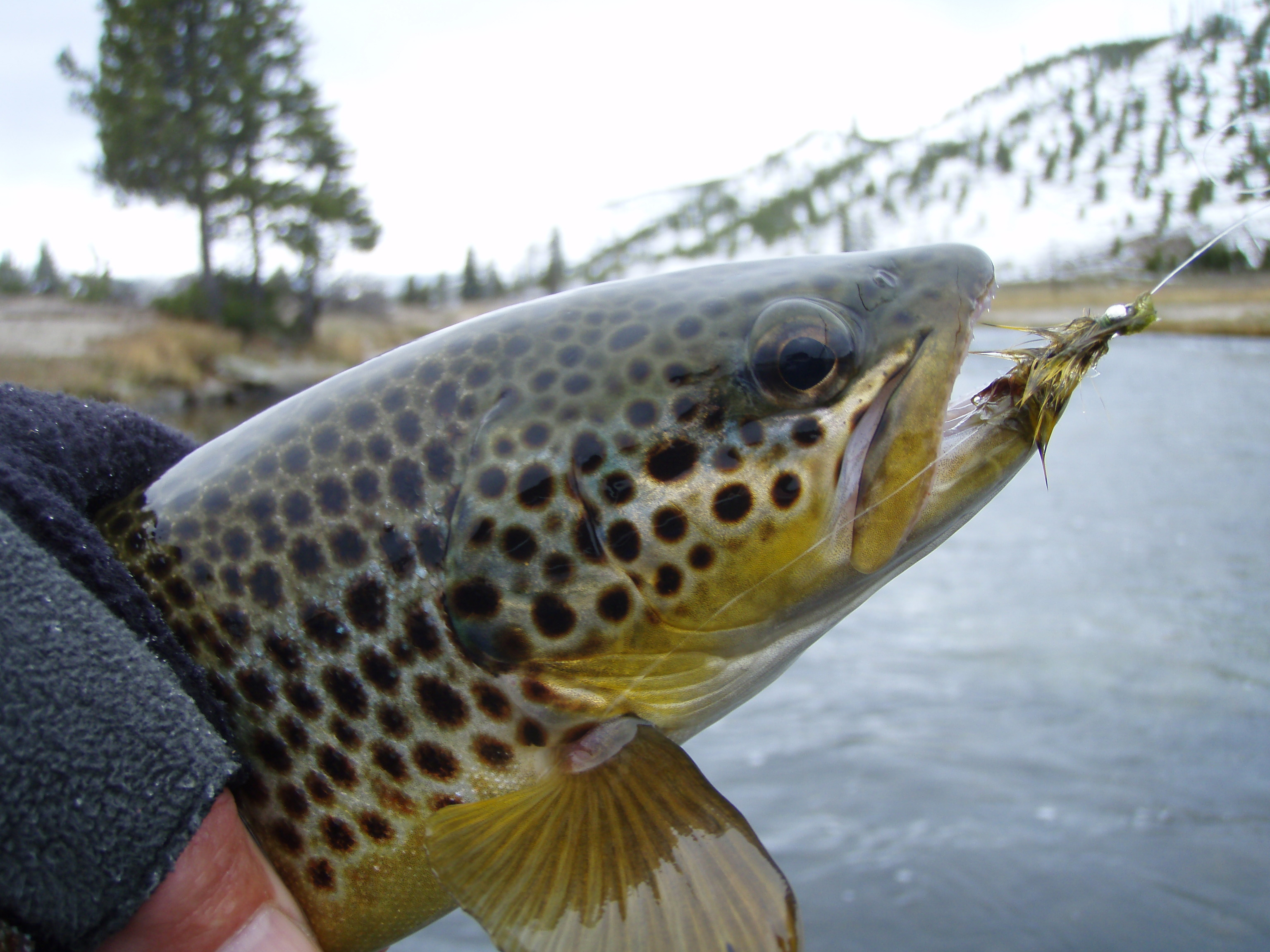 Brown Trout Taken On Woolly Bugger At Muleshoe Bend, Firehole River, October 2007 (Released)